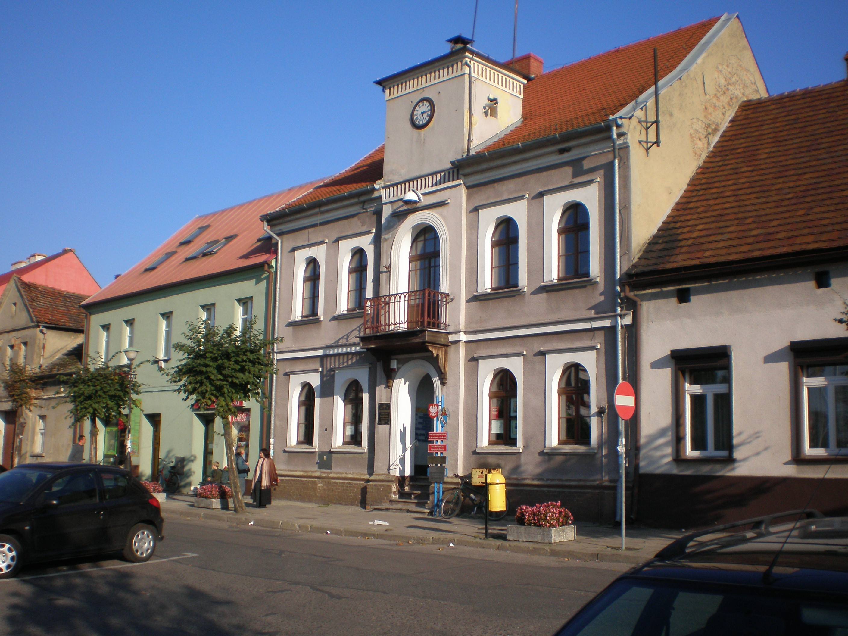 Murowana Goślina town.